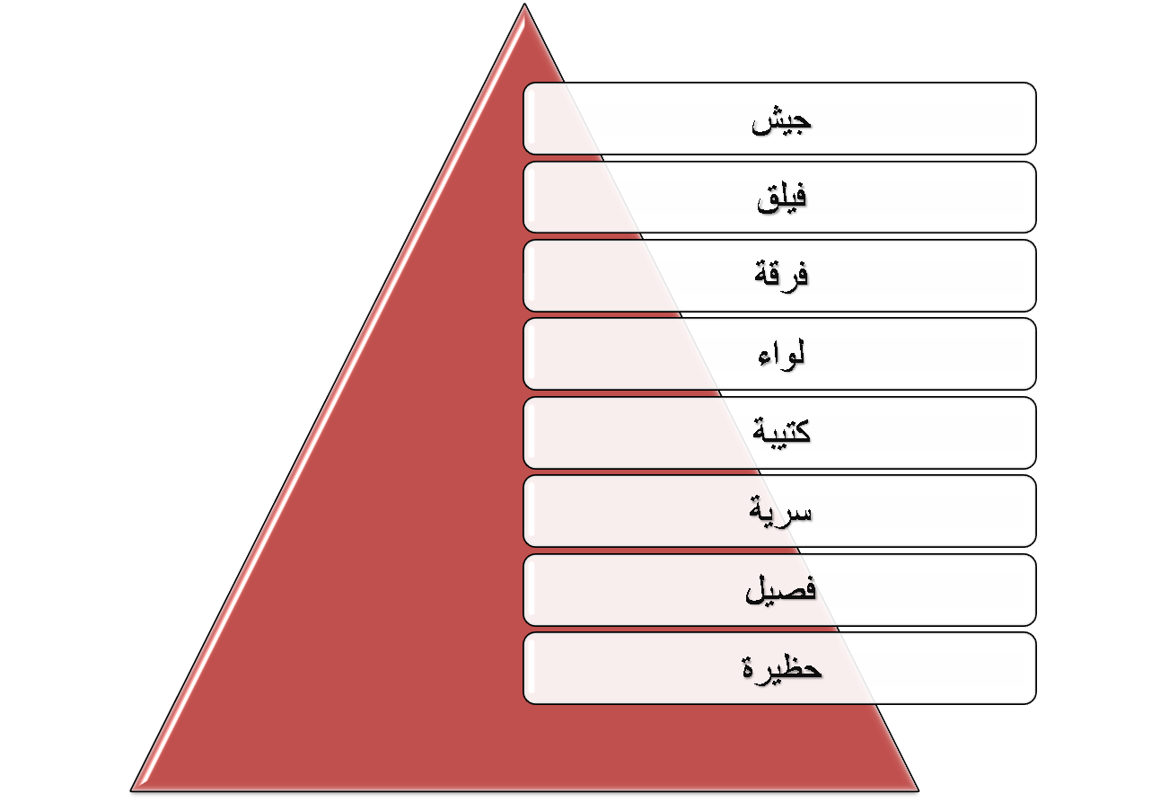 Graph to explain the Command Structure in the Army